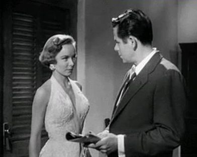 Screenshot of Diana Lynn and Glenn Ford from the film Plunder of the Sun